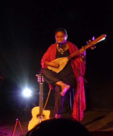 Nawal Mlanao in concert, Nairobi 2009